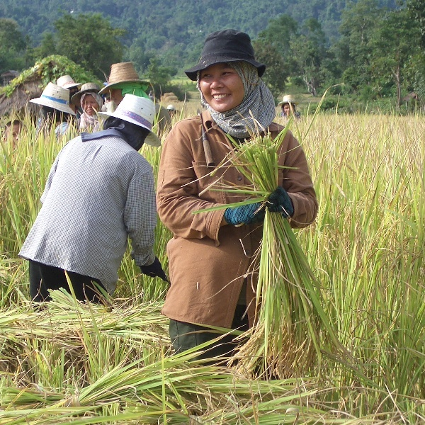 Field works picking rice